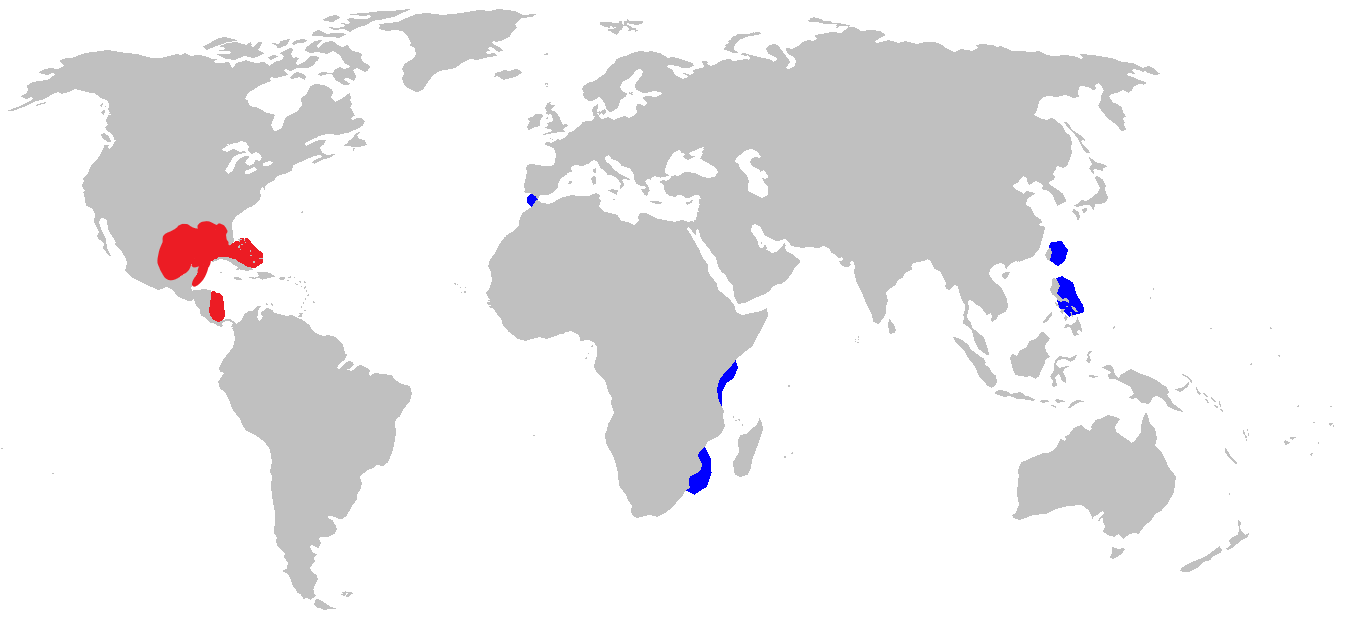 Distribution of Hexanchus nakamurai (blue) and Hexanchus vitulus (red)